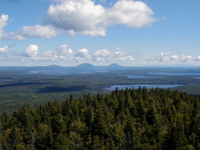 God's Country